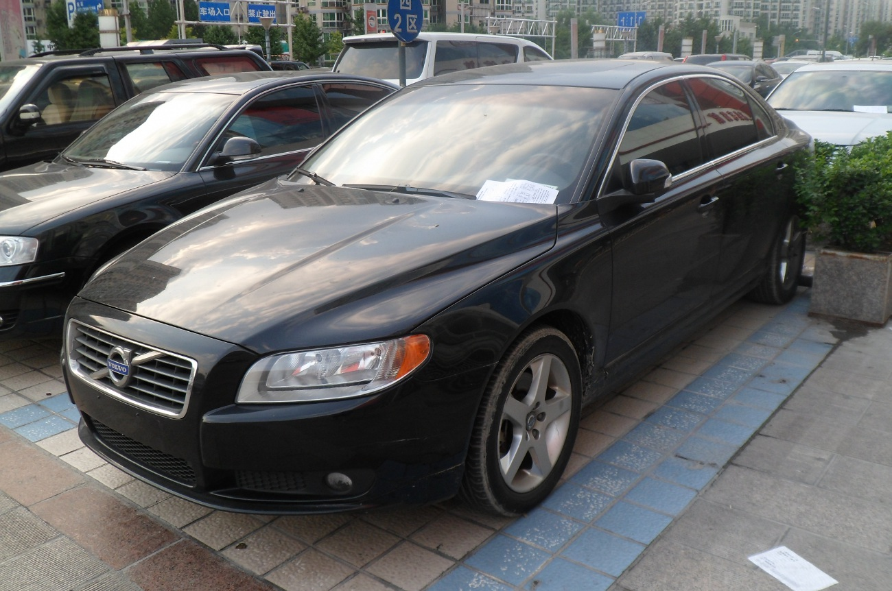 Volvo S80L AS photographed in Beijing, China.